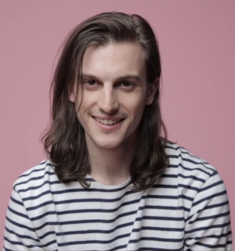 Native New Yorker Peter Vack is an emerging indie darling, Renaissance man and burgeoning auteur, with an increasingly compelling voice in the art world buoyed by a growing resume of acting, writing, and directing credits that are a testament to his discerning taste and wide-ranging influences. Not yet thirty, (Vack was born in the West Village in 1986), the handsome artist is often mentioned with other New York-based creatives of around the same age: Jemima Kirke, Greta Gerwig, and Lena Dunham, whose Girls entered the zeitgeist only in 2012, dragging all of its highly educated millennial angst with it. He doesn’t yet have the name recognition of Dunham, and unlike her, Vack is so far reticent on the social issues that peak through some of his work. (He plays a small role in the Sundance Grand Jury Prize-winning Fort Tilden, which despite efforts to make fun of privileged hipsterism and the uncomfortable dissonance of gentrification, seems to indulge in it without real engagement or critical examination.)